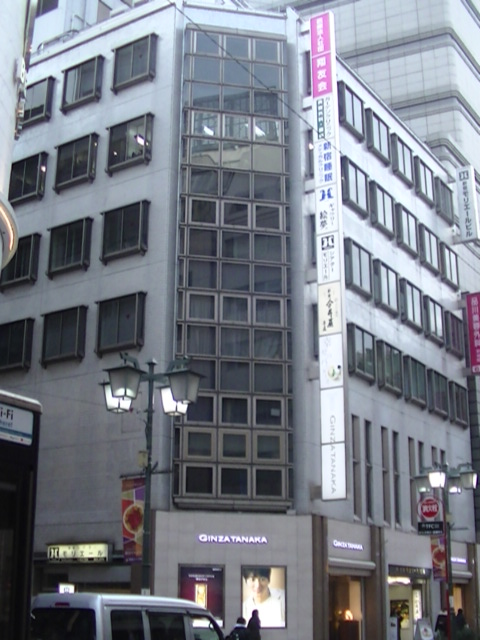 Shinjuku Moliere Building (2020.01.26)